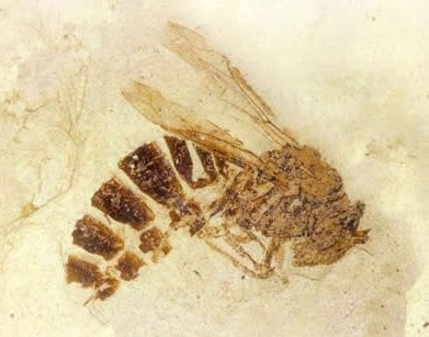 Crop of file in filename